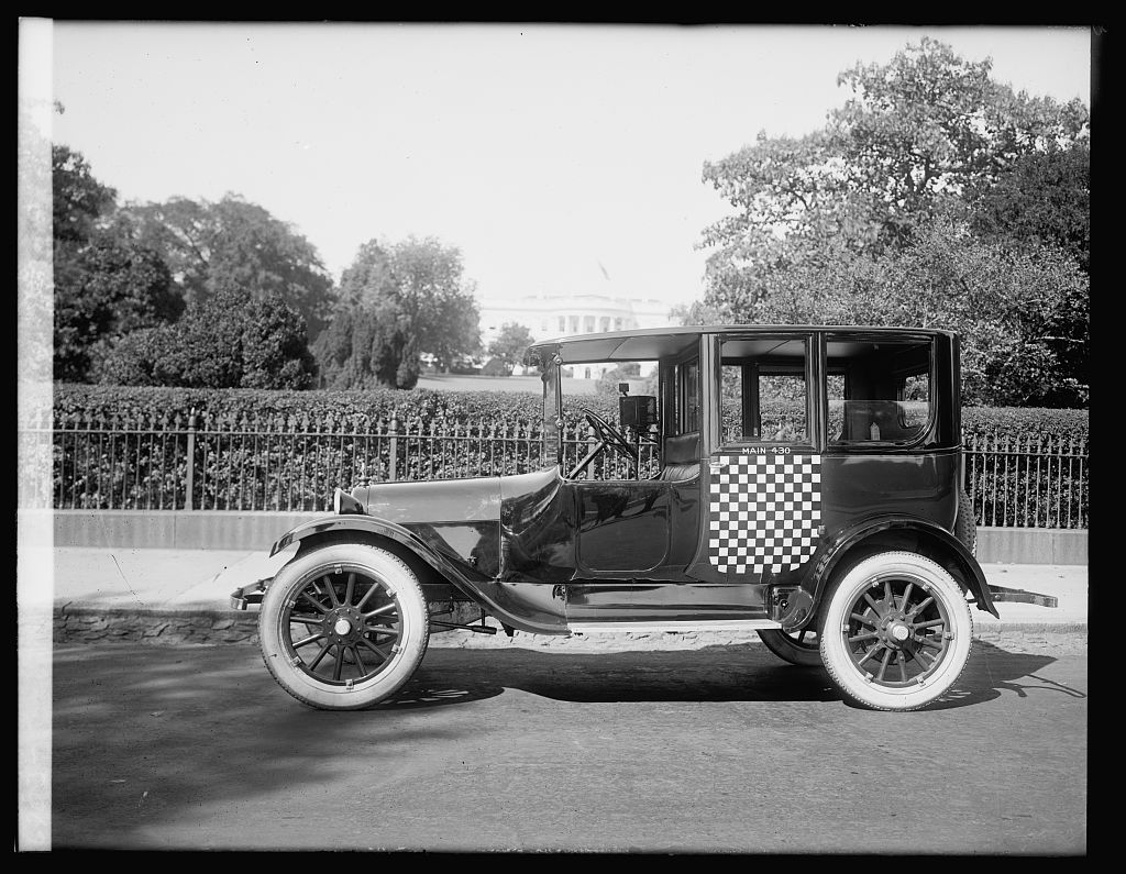 Title: [Checkered cab?, White House in background; Washington, D.C.]